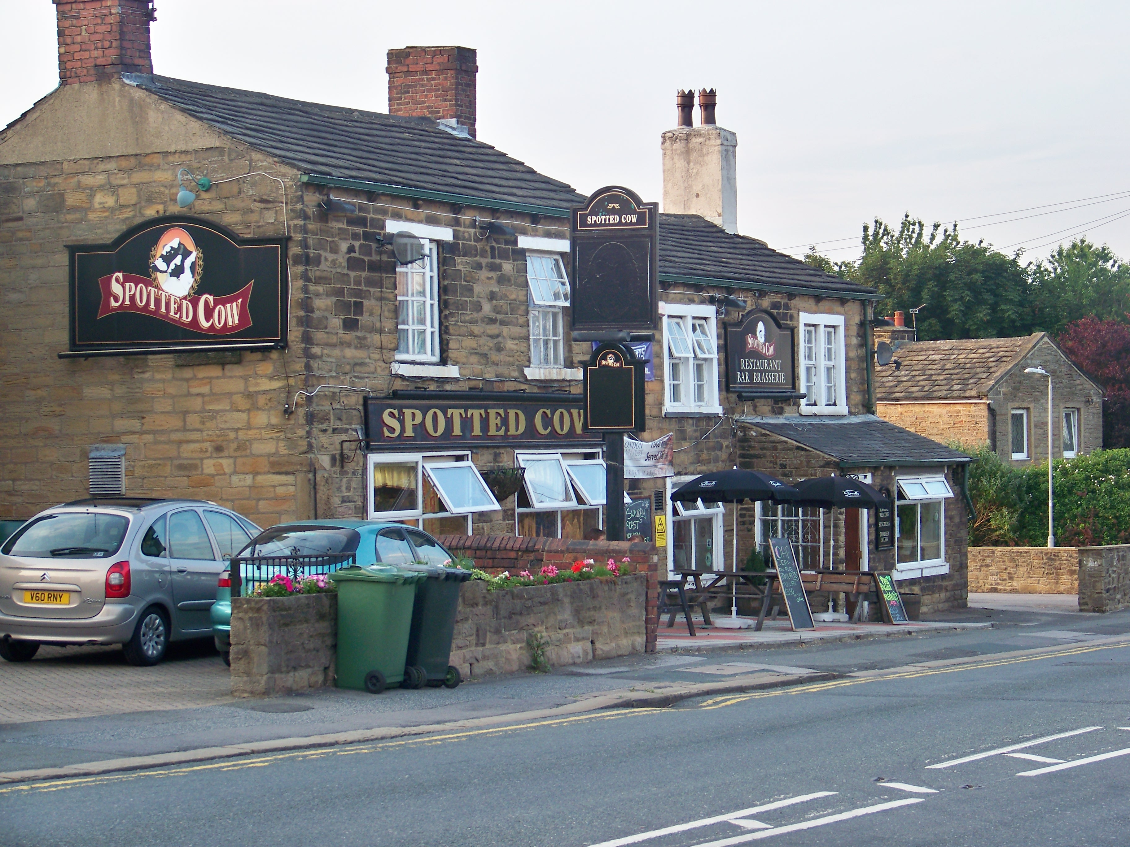 The Spotted Cow in Drighlington, Leeds, West Yorkshire, UK. Taken on the evening of Wednesday 1st July 2009.